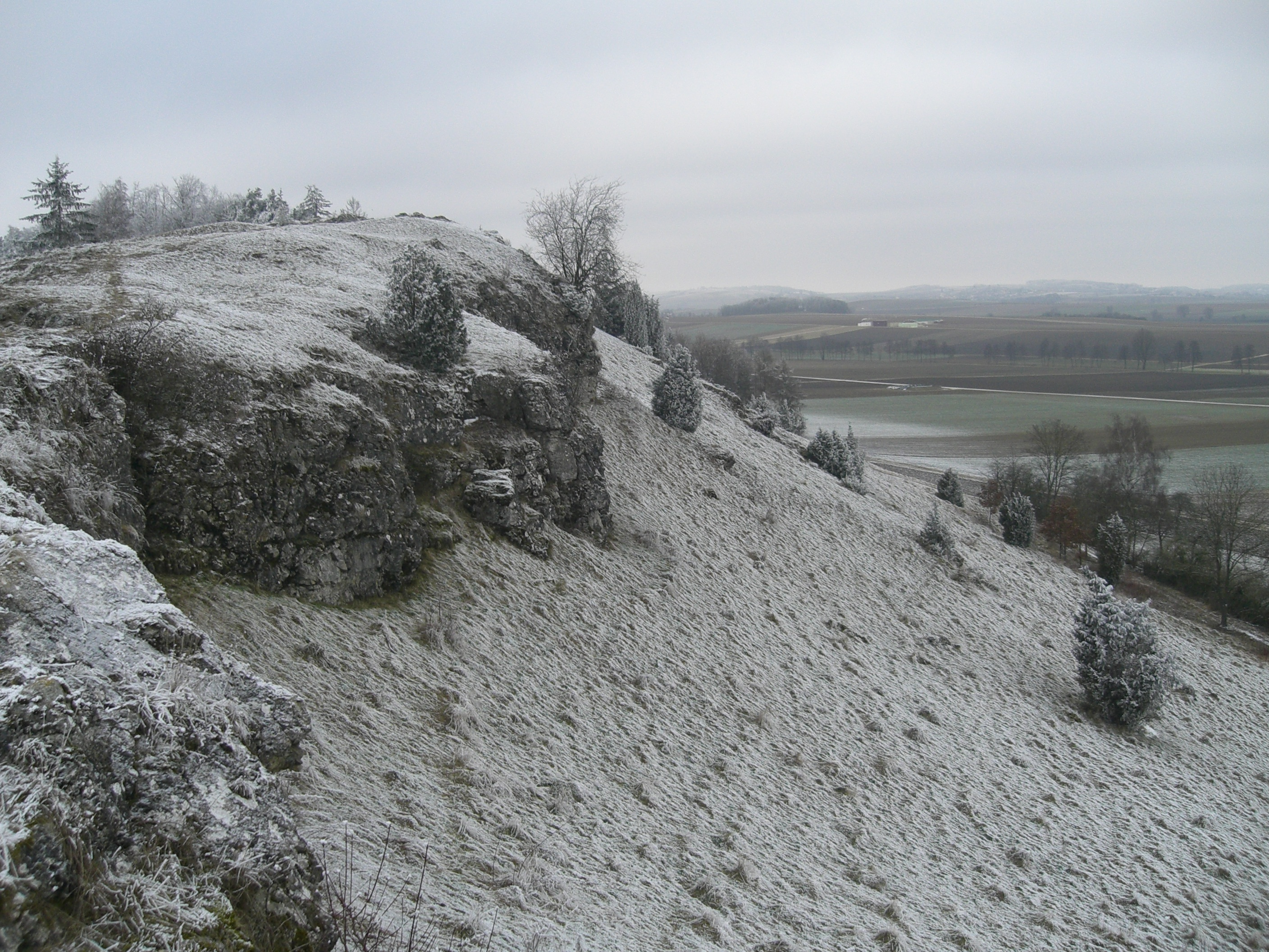 Nördlinger Ries, view of the southern crater rim near the village of Mönchsdeggingen. Shattered limestone blocks mark the crater rim on the left, and the flat crater floor is visible in the background at right.